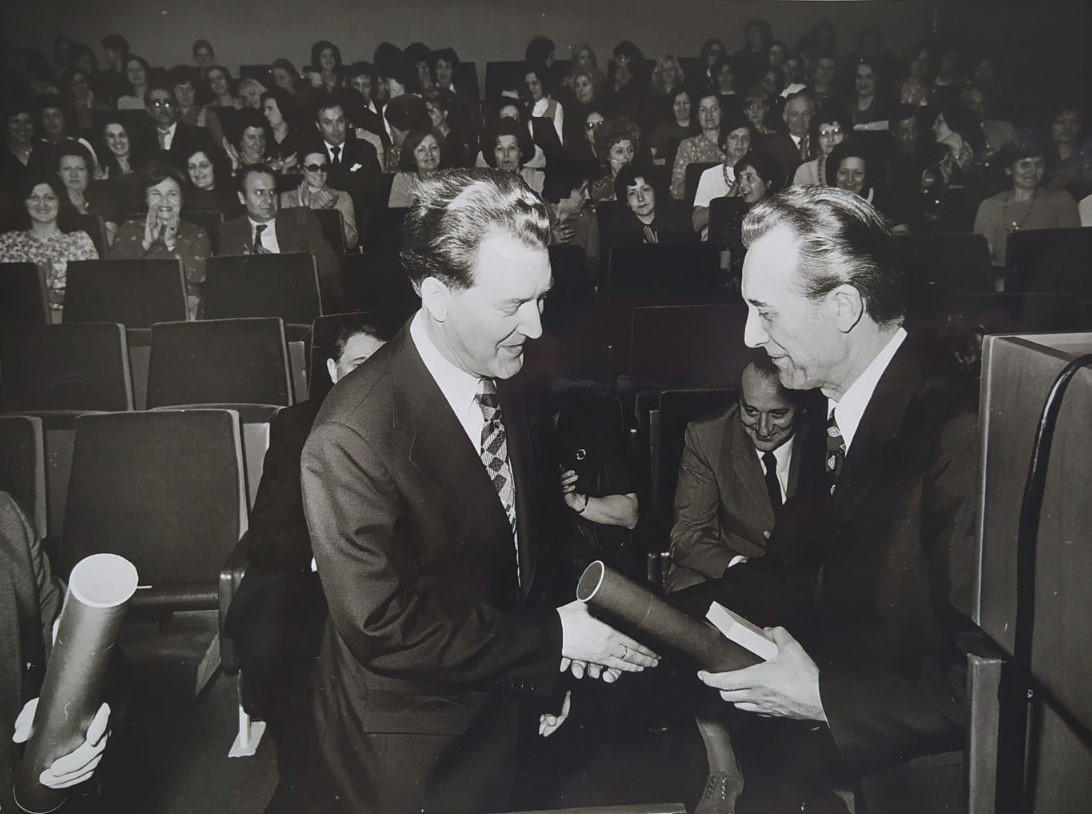 Miodrag Živanov accepting the "Orden rada" award, 1973. Photo can be found in the Society for Culture, Art and International Cooperation Adligat in Belgrade, Serbia. Српски (ћирилица): Миодраг Живанов прихвата Орден рада сребрног реда, 1973. година